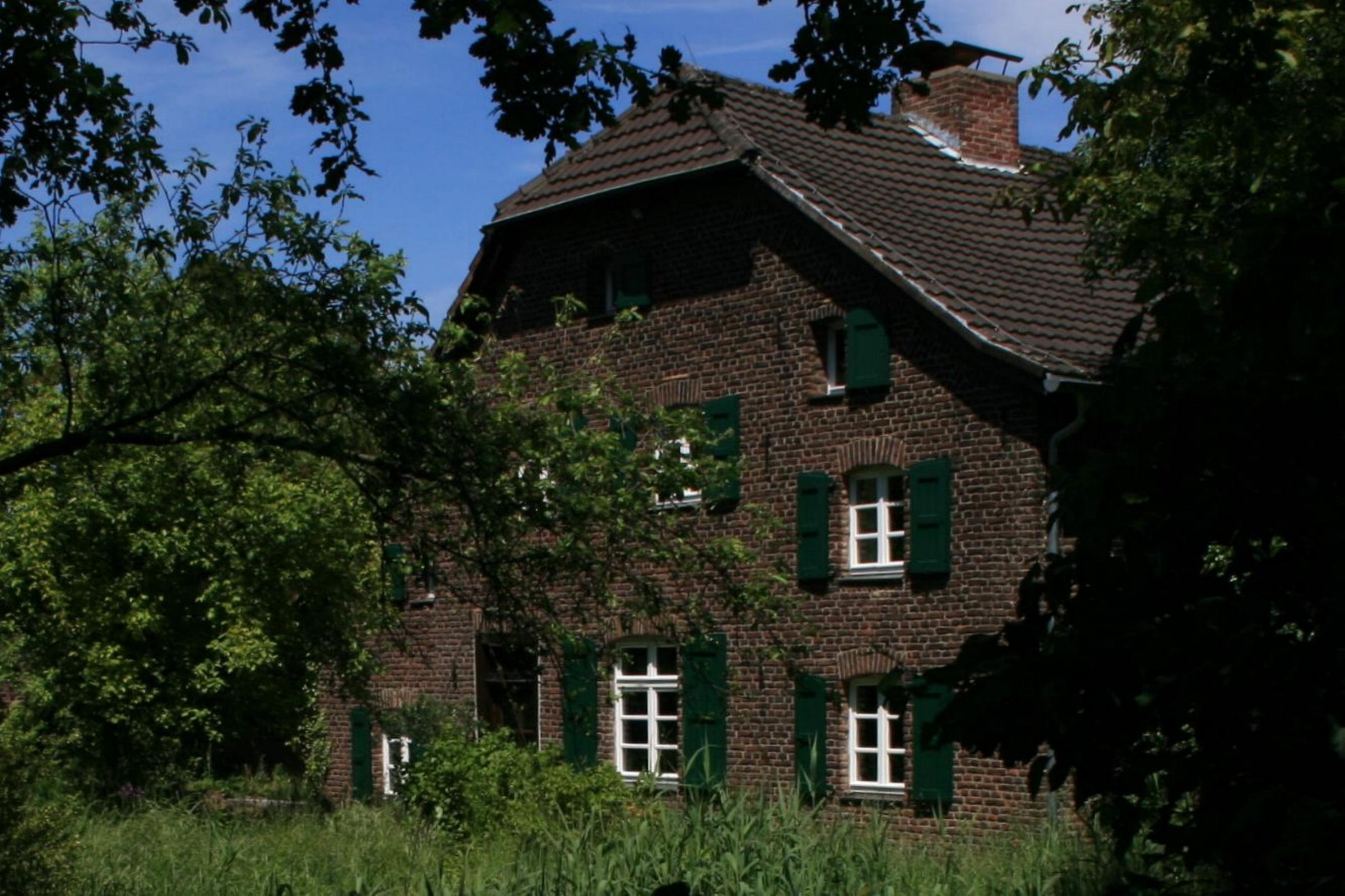 Cultural heritage monument No. L 010 in Mönchengladbach